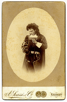 Pavel Vasilyevich Samoylov (1866–1931), russian actor of theater and cinema, as Hamlet. 1900.